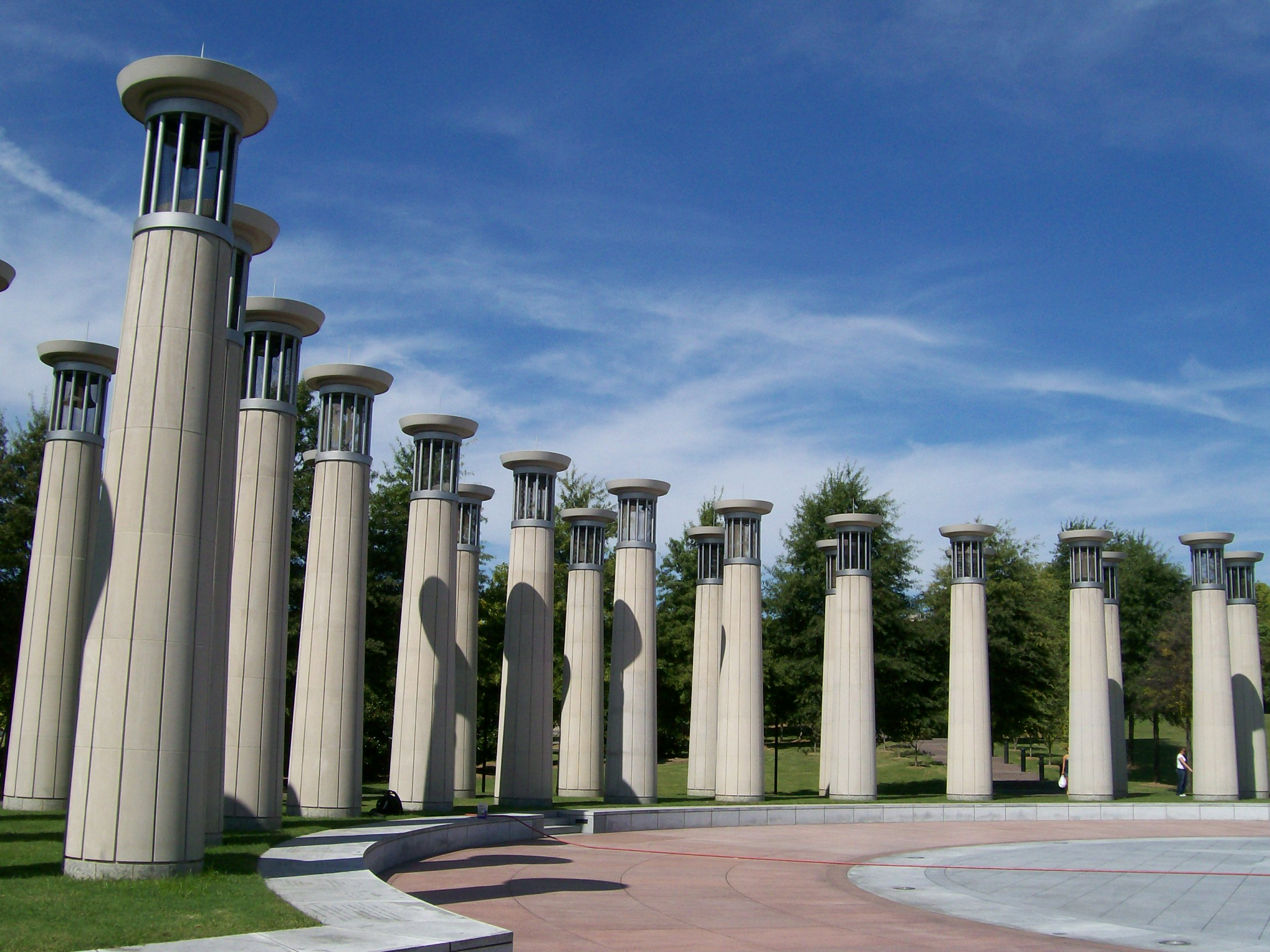 Some of the carillon pillars surrounding the Court of 3 Stars at the Bicentennial Capitol Mall State Park in Nashville, Tennessee.